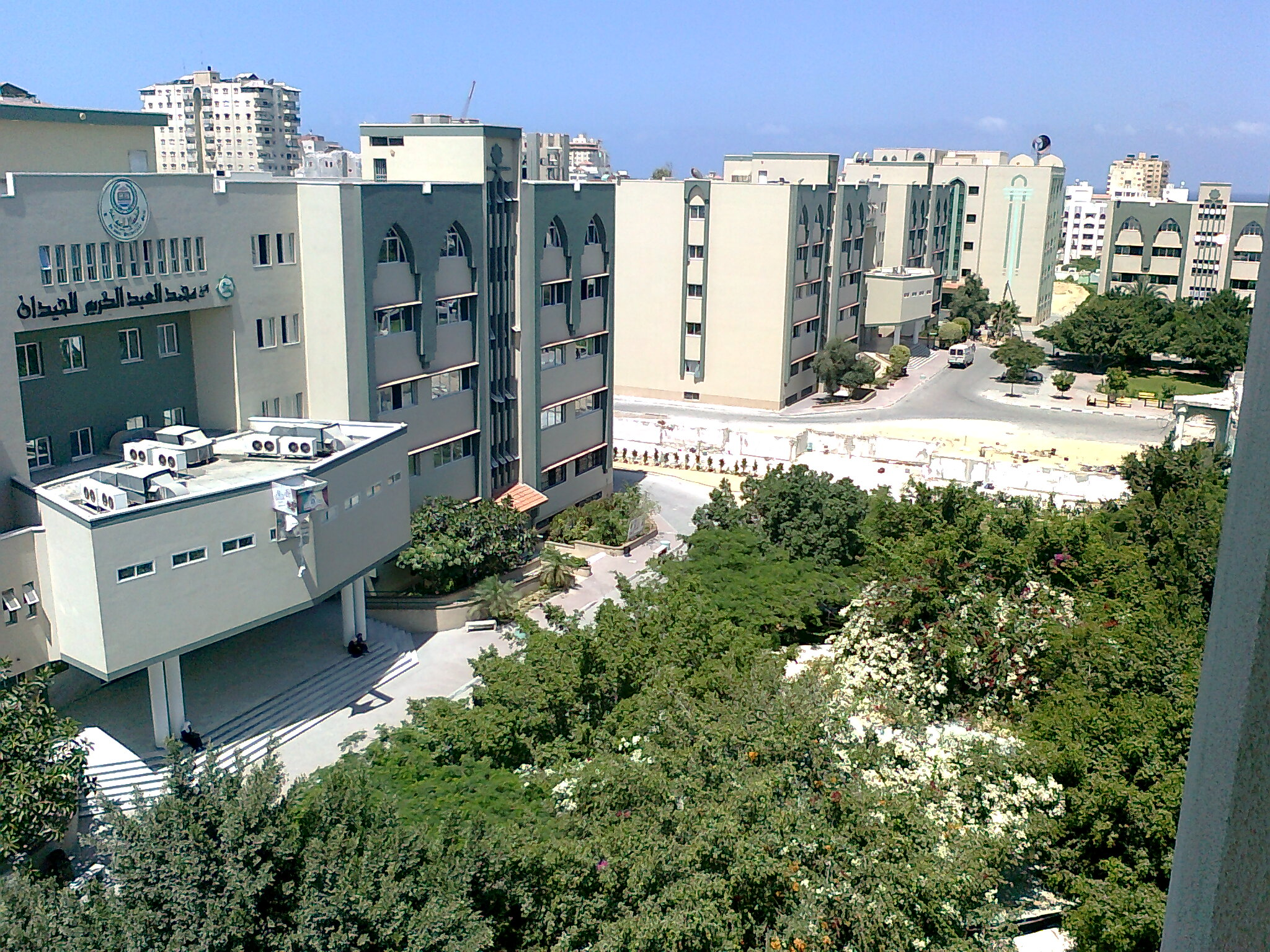 Luhaidan Building - Islamic University of Gaza-مبنى اللحيدان بالجامعة الاسلامية في غزة